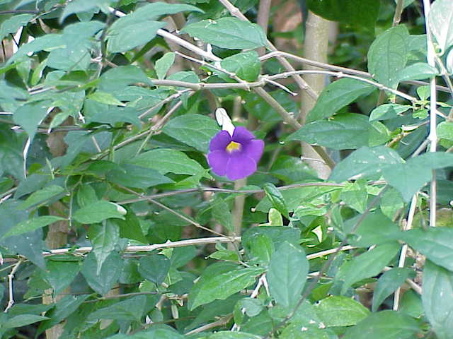 Species: Thunbergia erecta Family: Acanthaceae Image No. 2